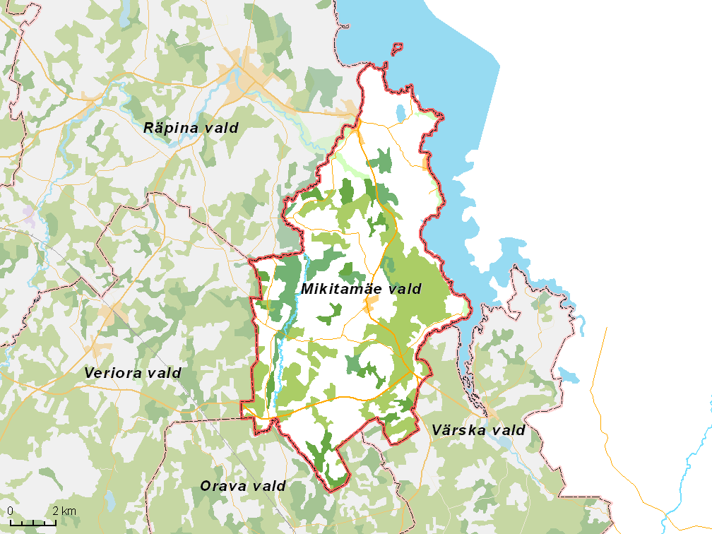 Map of municipality in Estonia